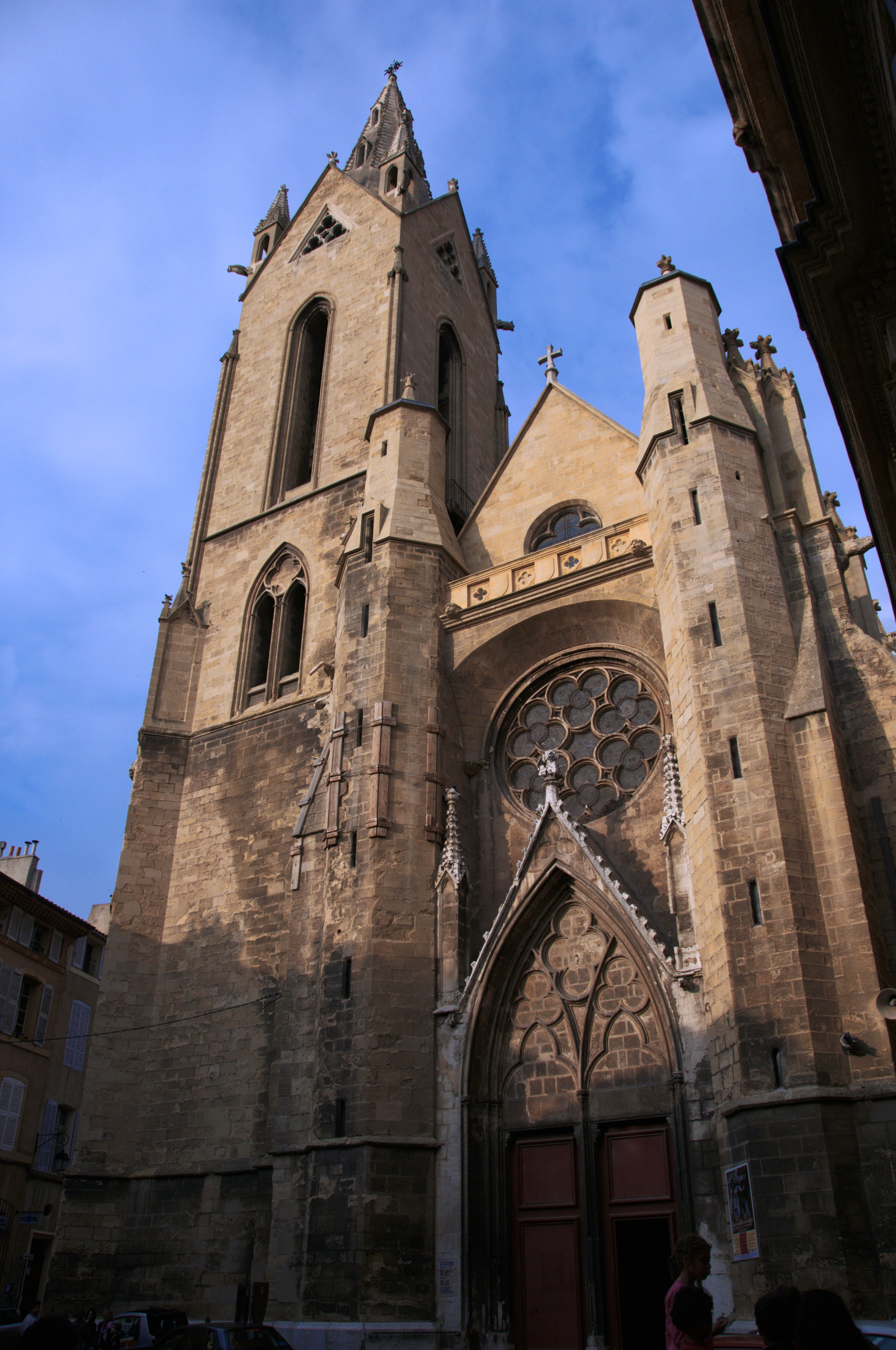 Saint-Jean-de-Malte Church, place Saint-Jean-de-Malte, Aix-en-Provence, France.